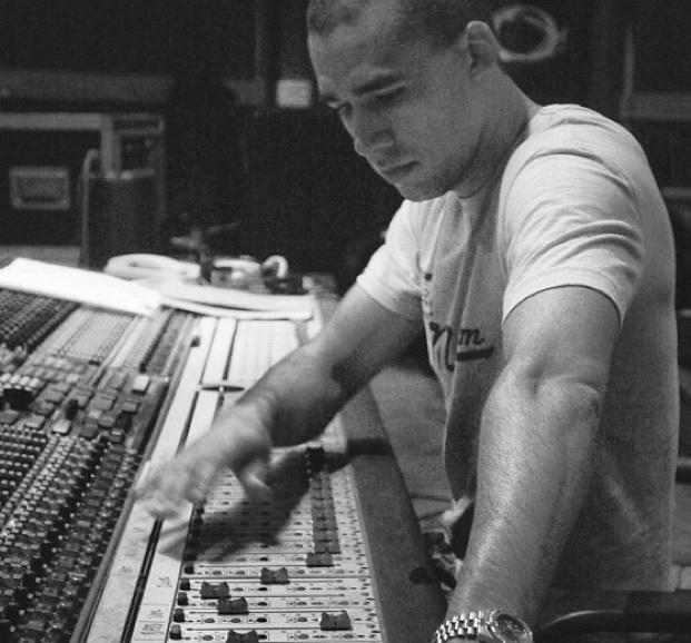 Mike Cave working in his studio